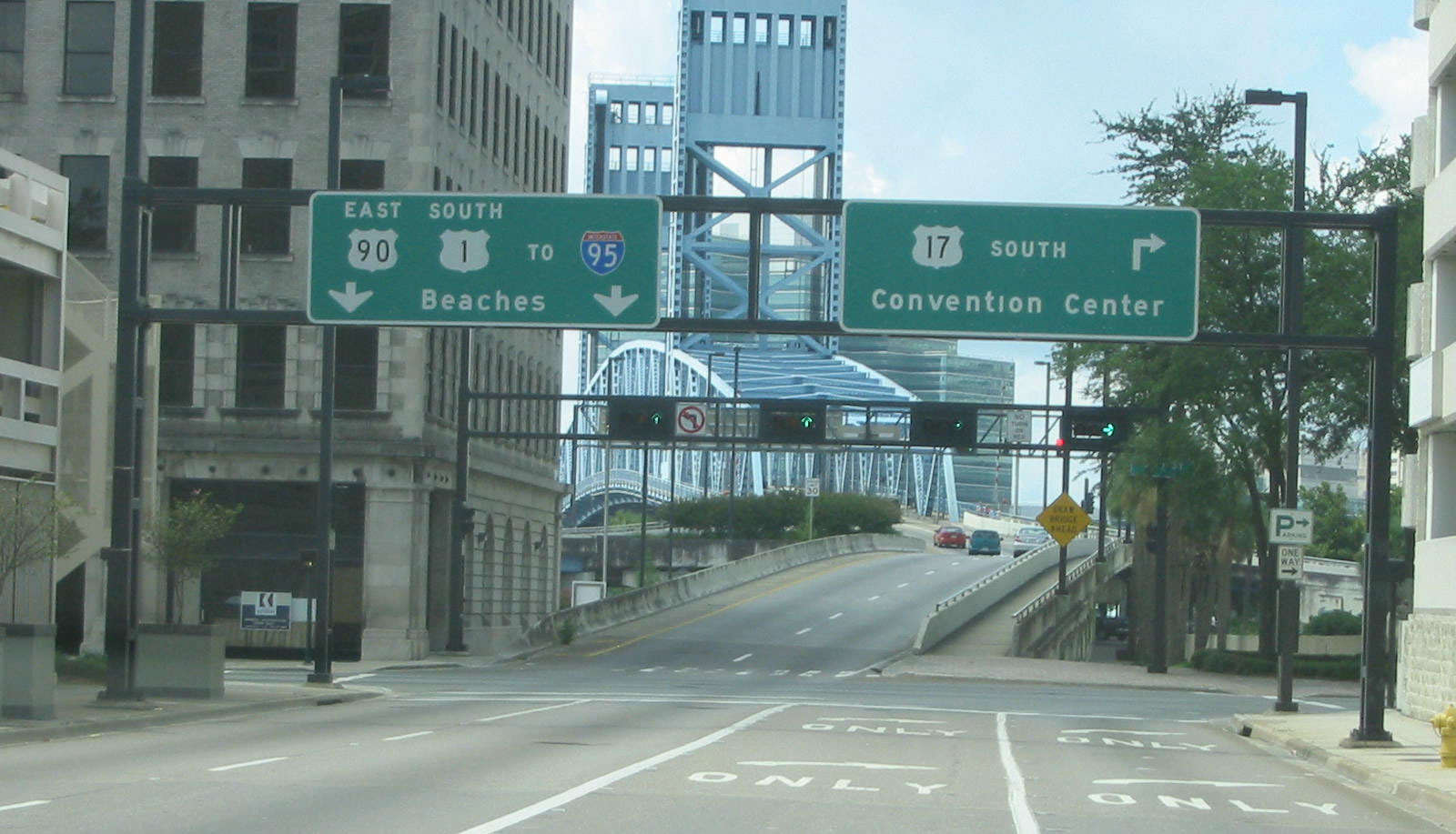 The Main Street Bridge in Jacksonville, Florida, looking south from Main Street downtown. Taken July 27, 2003 by User:SPUI.